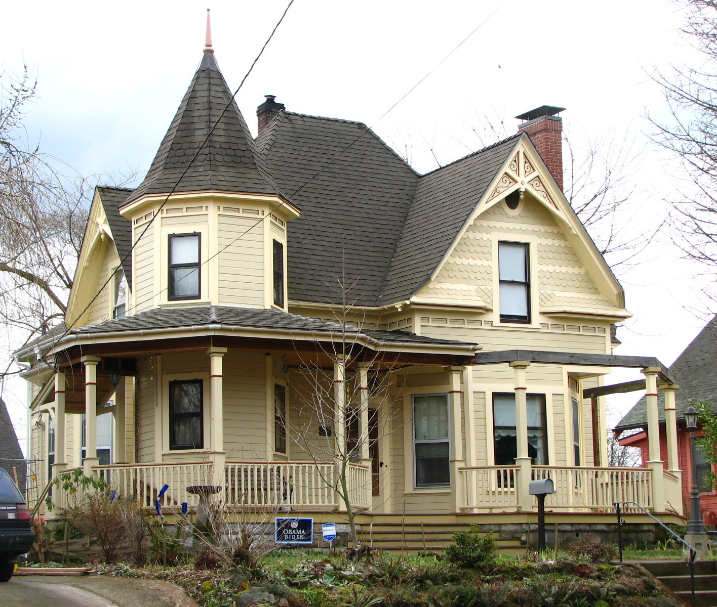 The historic Elliott House (built 1904), located at 2022 North Willamette Boulevard in Portland, Oregon, United States, is listed on the US National Register of Historic Places.